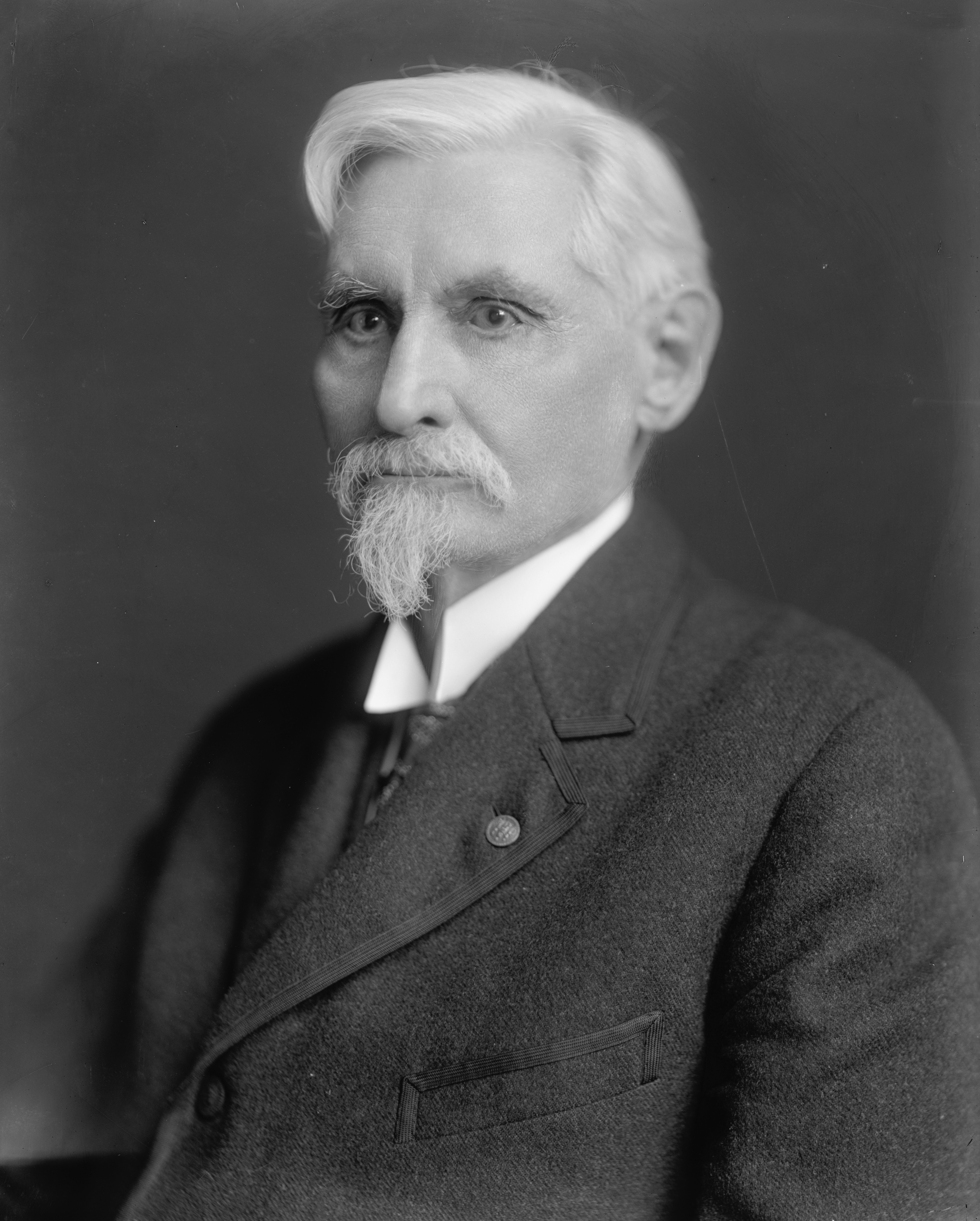 Title: GARDNER, W. GENERAL Abstract/medium: 1 negative : glass ; 8 x 10 in. or smaller